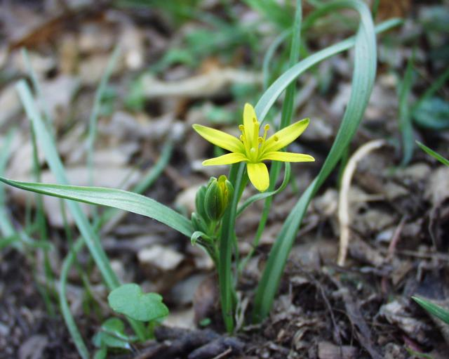 Meadow Gagea, Gagea pratensis, a photography originating of the internet site The accord of the autor, H. Brisse, is here.